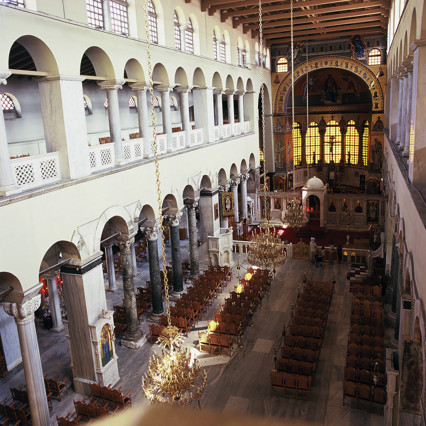 Paleochristian and Byzantine Monuments of Thessalonika